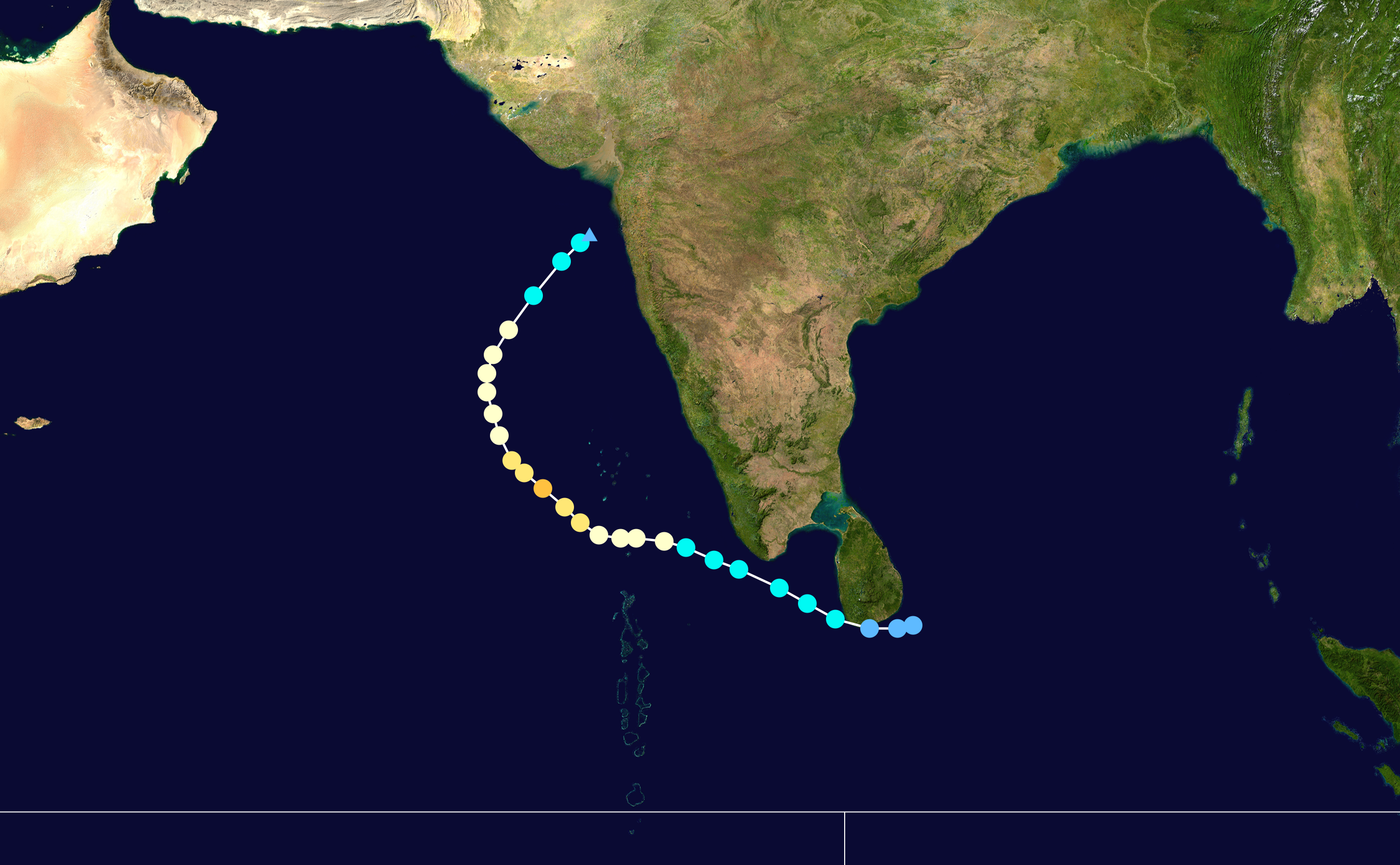 Track map of Very Severe Cyclonic Storm Ockhi of the 2017 North Indian Ocean cyclone season. The points show the location of the storm at 6-hour intervals. The colour represents the storm's maximum sustained wind speeds as classified in the Saffir–Simpson scale (see below), and the shape of the data points represent the nature of the storm, according to the legend below. Saffir–Simpson scale Tropical depression≤38 mph≤62 km/h Category 3111–129 mph178–208 km/h Tropical storm39–73 mph63–118 km/h Category 4130–156 mph209–251 km/h Category 174–95 mph119–153 km/h Category 5≥157 mph≥252 km/h Category 296–110 mph154–177 km/h Unknown Storm type Tropical cyclone Subtropical cyclone Extratropical cyclone / Remnant low / Tropical disturbance